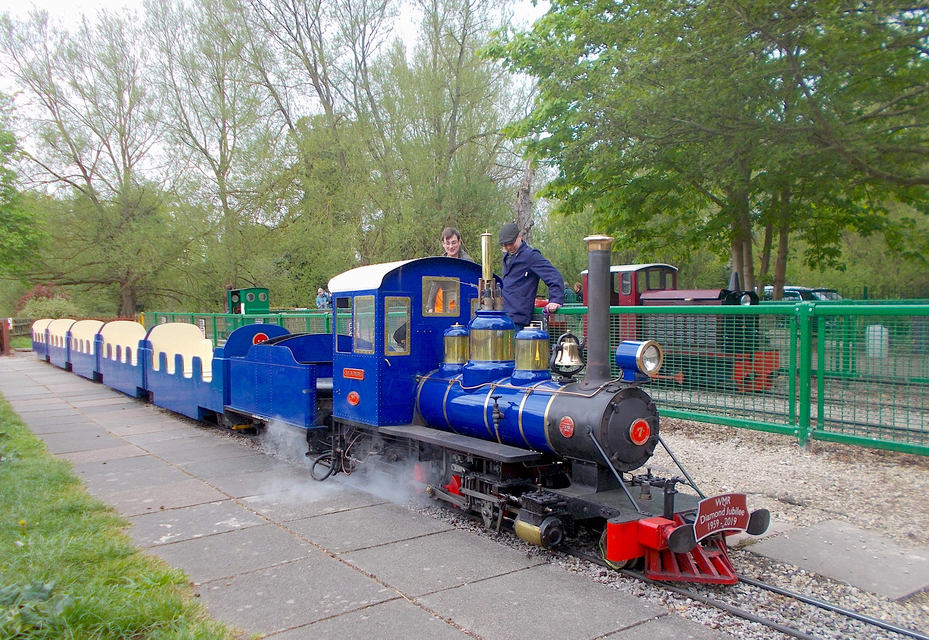 Willis Light Engineering Baldwin style 2-6-0 No. 7 'Marri' at the head of a train in the station